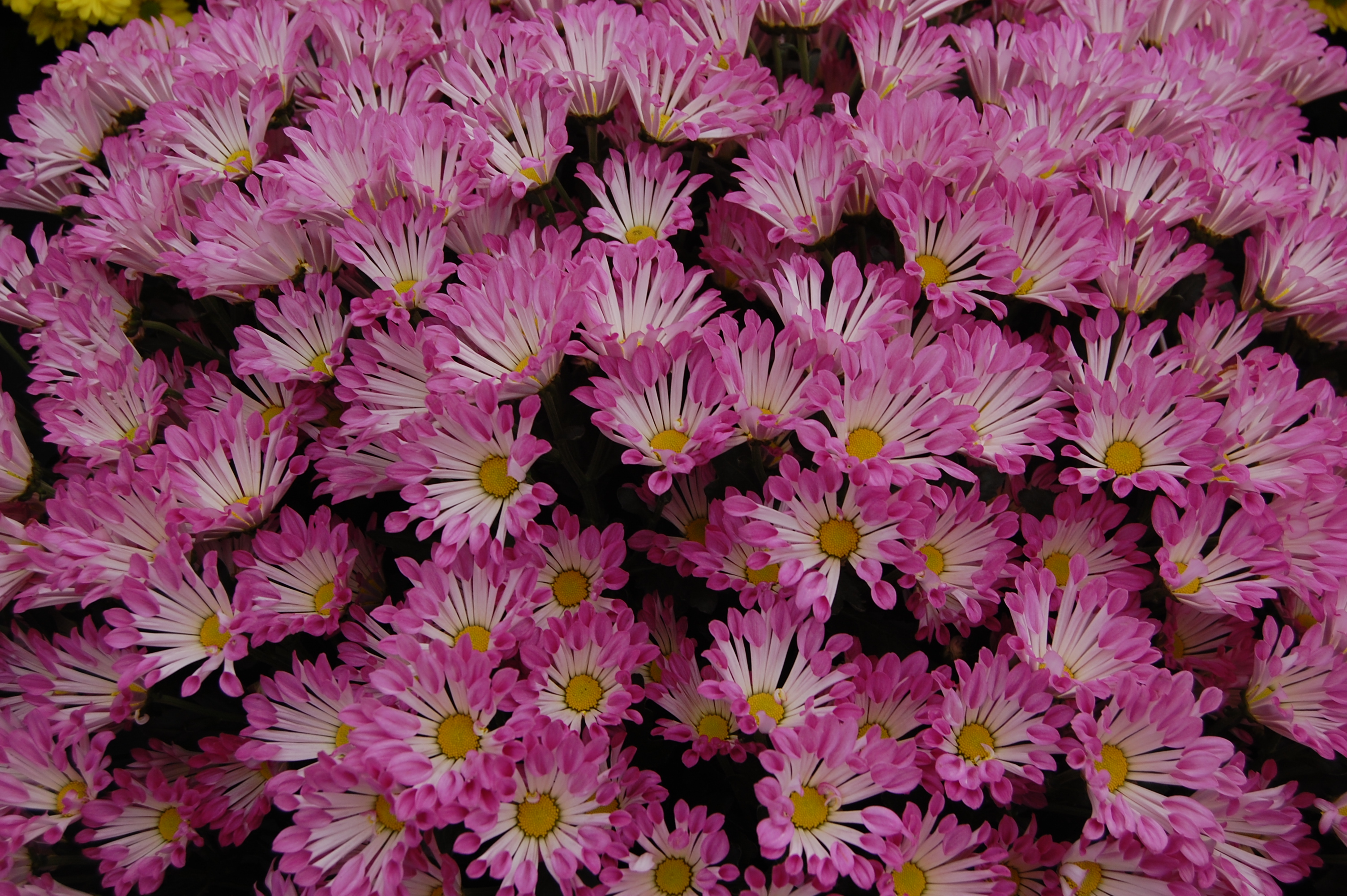 Chrysanthemum 'Dance', displayed at Gardeners' World Live.